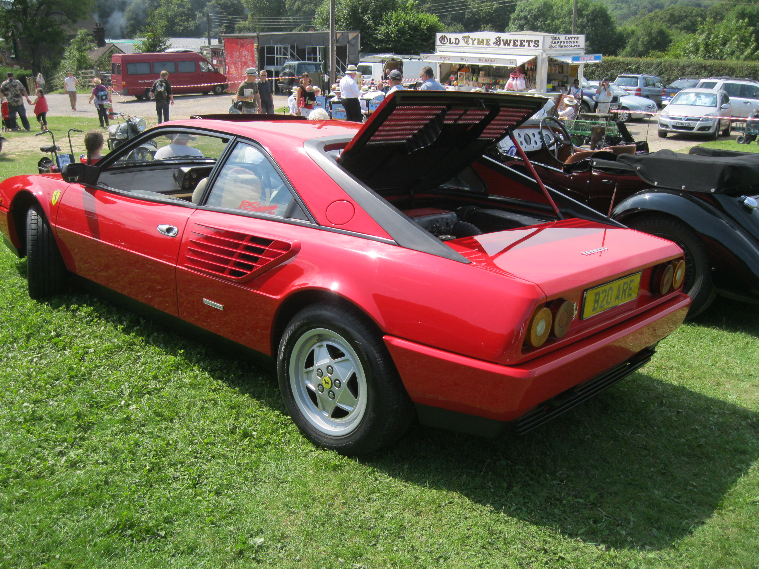 Spotted at Bluebell Railway Transport weekend, Horsted Keynes Station, Sussex in August 2012.